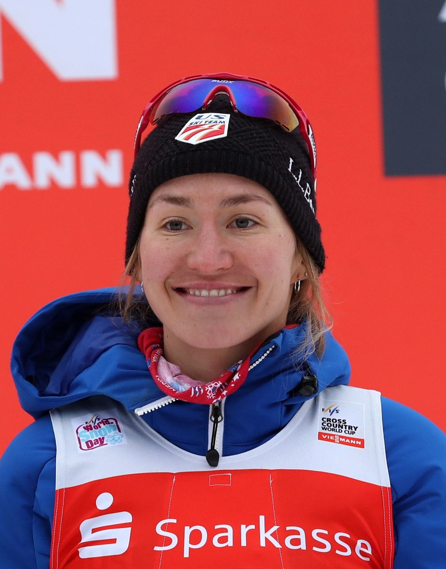 Womens Award Ceremony at the FIS Cross-Country World Cup Dresden 2018: Sophie Caldwell